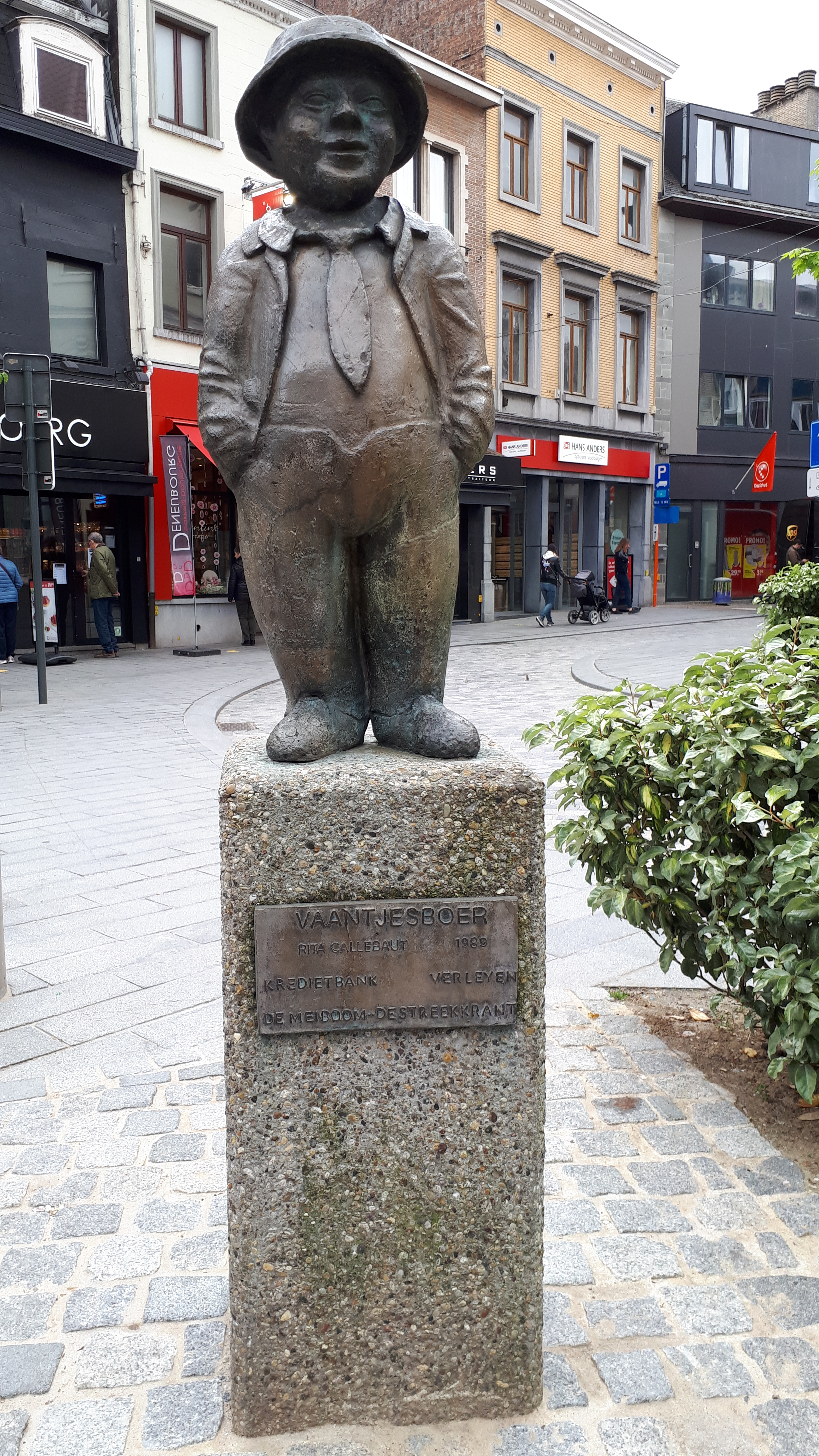 The banner seller from Halle